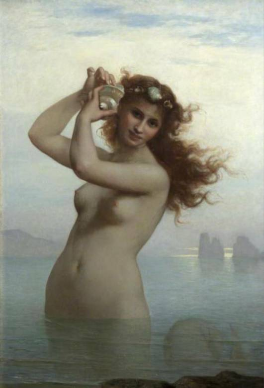 The Siren